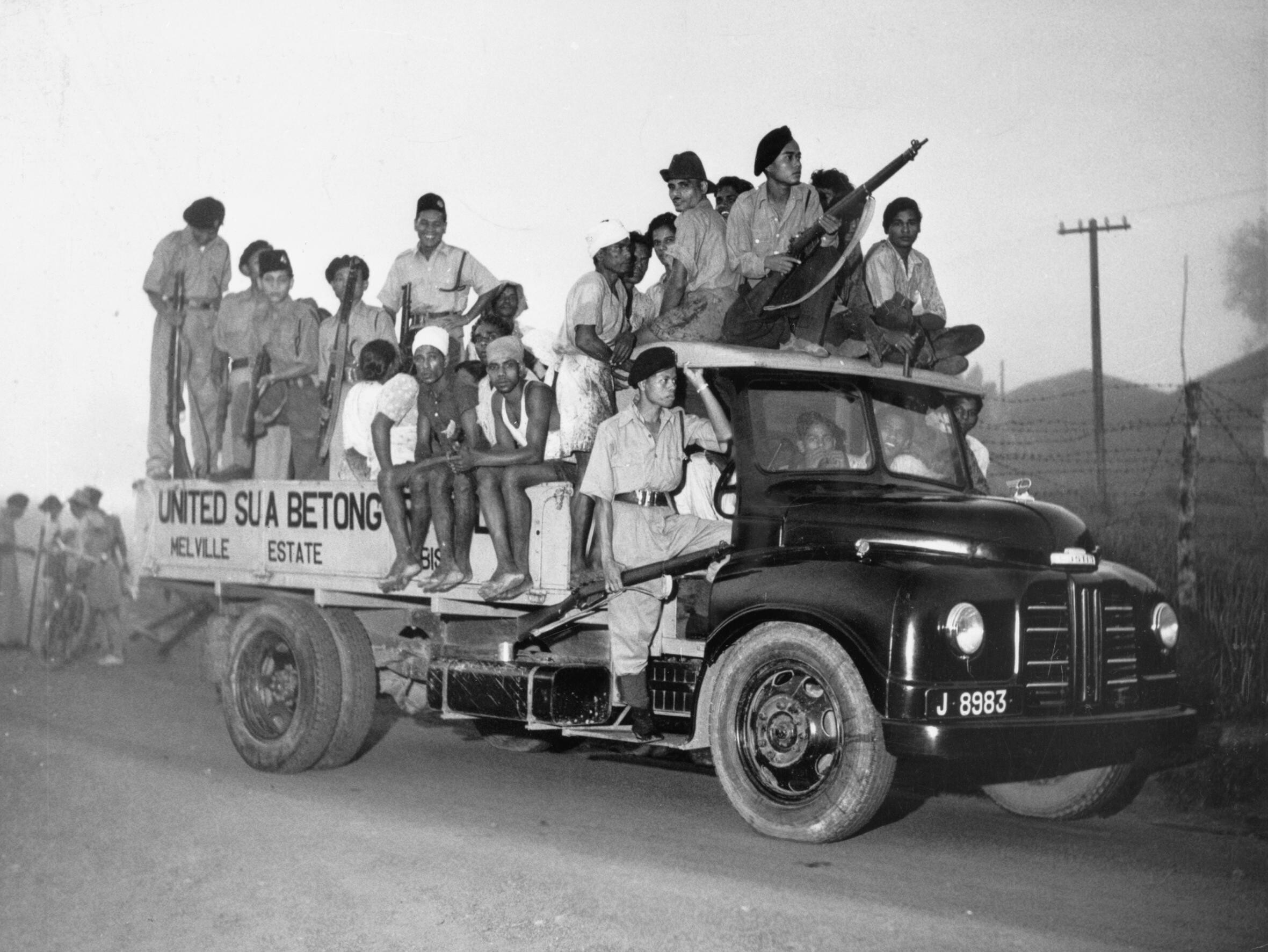 Workers on a rubber plantation in Malaya travel to work under the protection of Special Constables whose function was to guard them throughout the working day against attack by communist forces, 1950. Rubber trees and installations were also vulnerable to communist attack.Further Information= The Federation of Malaya was the world's biggest rubber producer in 1950, supplying 692,585 tons - or 37.5% - of the total world production